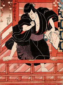 Utaemon Nakamura IV (top) as Ishikawa Goemon in the 1838 Edo Nakamura-za production of Sanmon Hitome Senbon, by Kunisada Utagawa